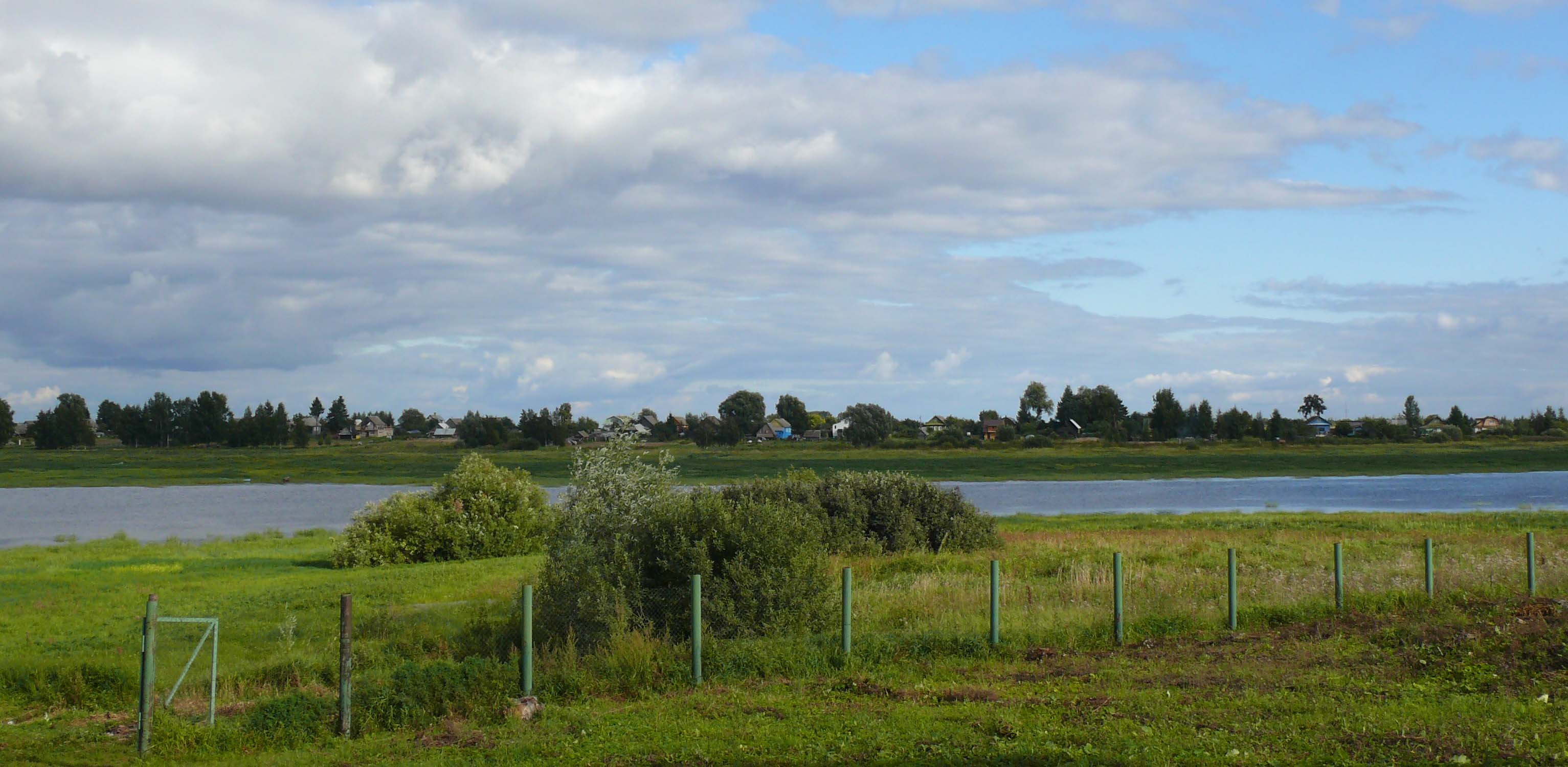 Hotiazh village, Novgorodsky district, Novgorod oblast, Russia